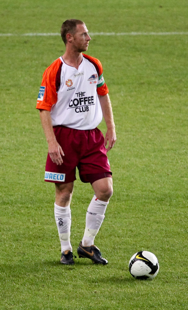 Craig Moore playing for Queensland Roar against Sydney FC in the 08/09 A-League Round 7.